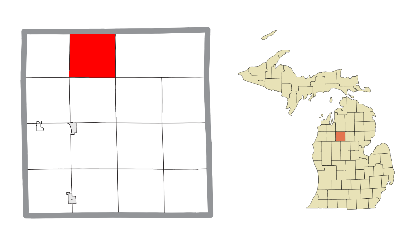 Pioneer Township, MI